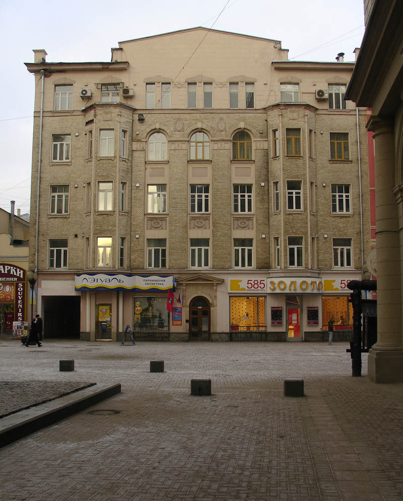 Arbat Street, Moscow. Unusually few people - between New Year and (orthodox) Christmas the city looks deserted. 1910-1911, Architect: Ivan German / Герман, Иван Андреевич (1875-1933)